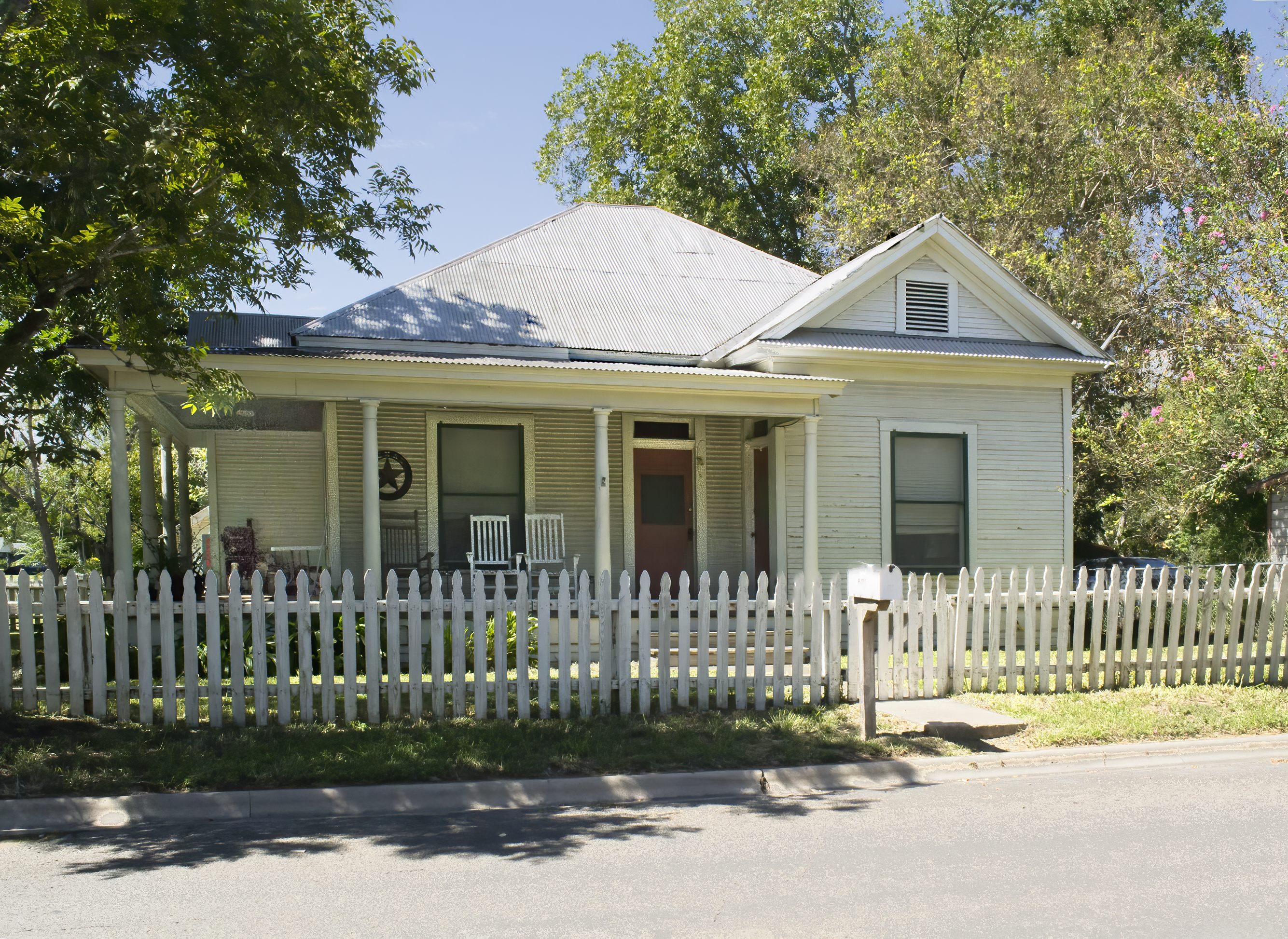 Frederick and Sallie Lyons House, Pearsall, TX. Listed on the National Register of Historic Places.